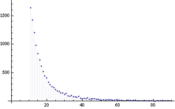 Density plot of 100000 random draws from a power law distribution (exponent = 3)